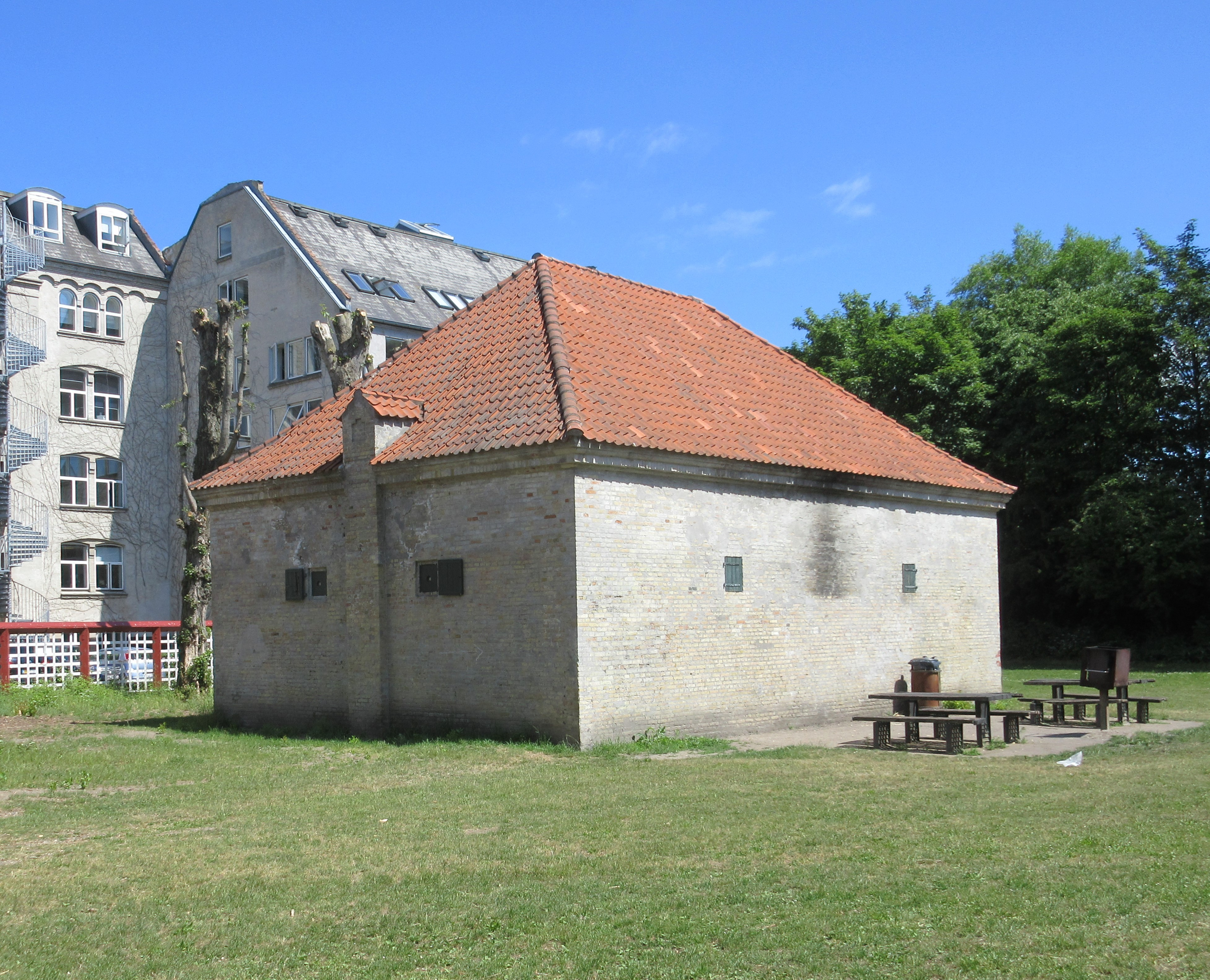 former The gunpowder magazine inside Enjkørningens Bastion in Christianshavn, Copenhagen, Denmark